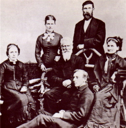 Photo of Francis Pettygrove and family, taken in 1800s. Copyright doubtless expired by now, in public domain. Downloaded from photographer unknown